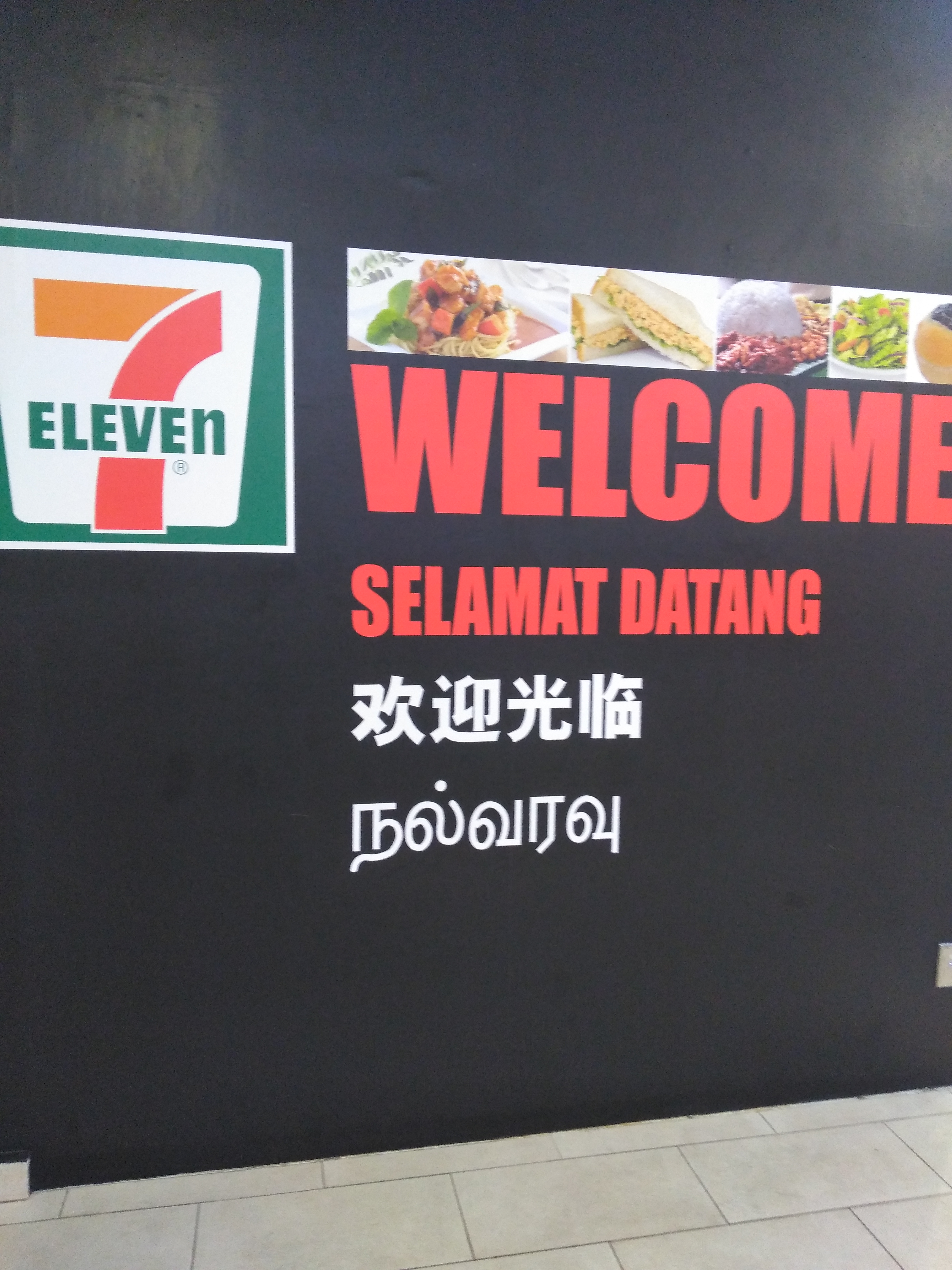 7-11 Penang Sentral